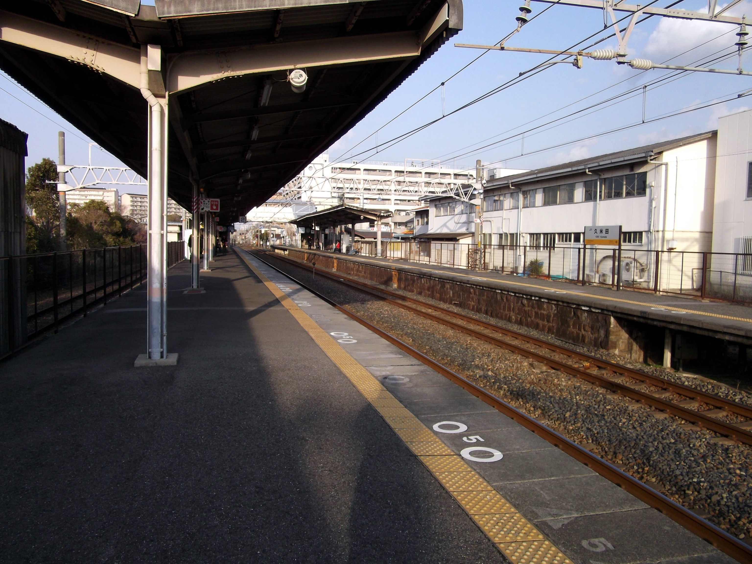 Kumeda Station platform, view towards Tennoji